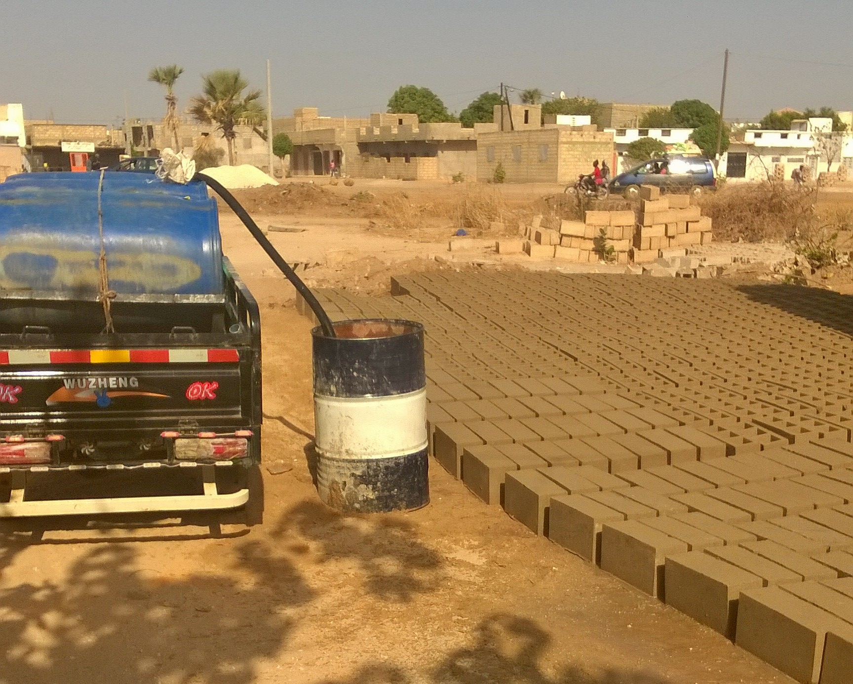 These types of motorbikes transport and sell water in the various areas under construction for the water needs and the smooth running of construction sites.